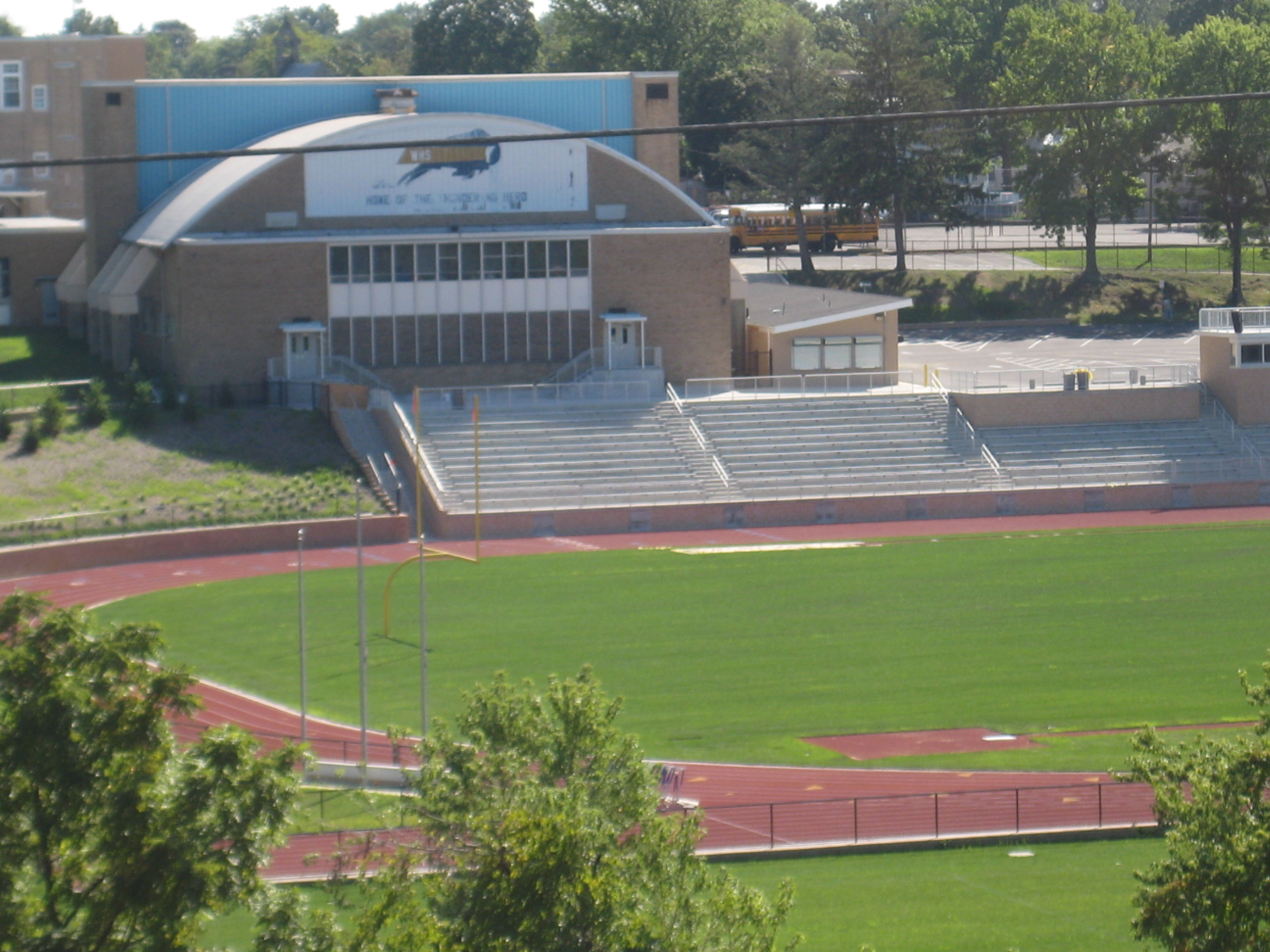 Far view overlooking the Woodbury High School football and track stadium in Woodbury, New Jersey, USA.